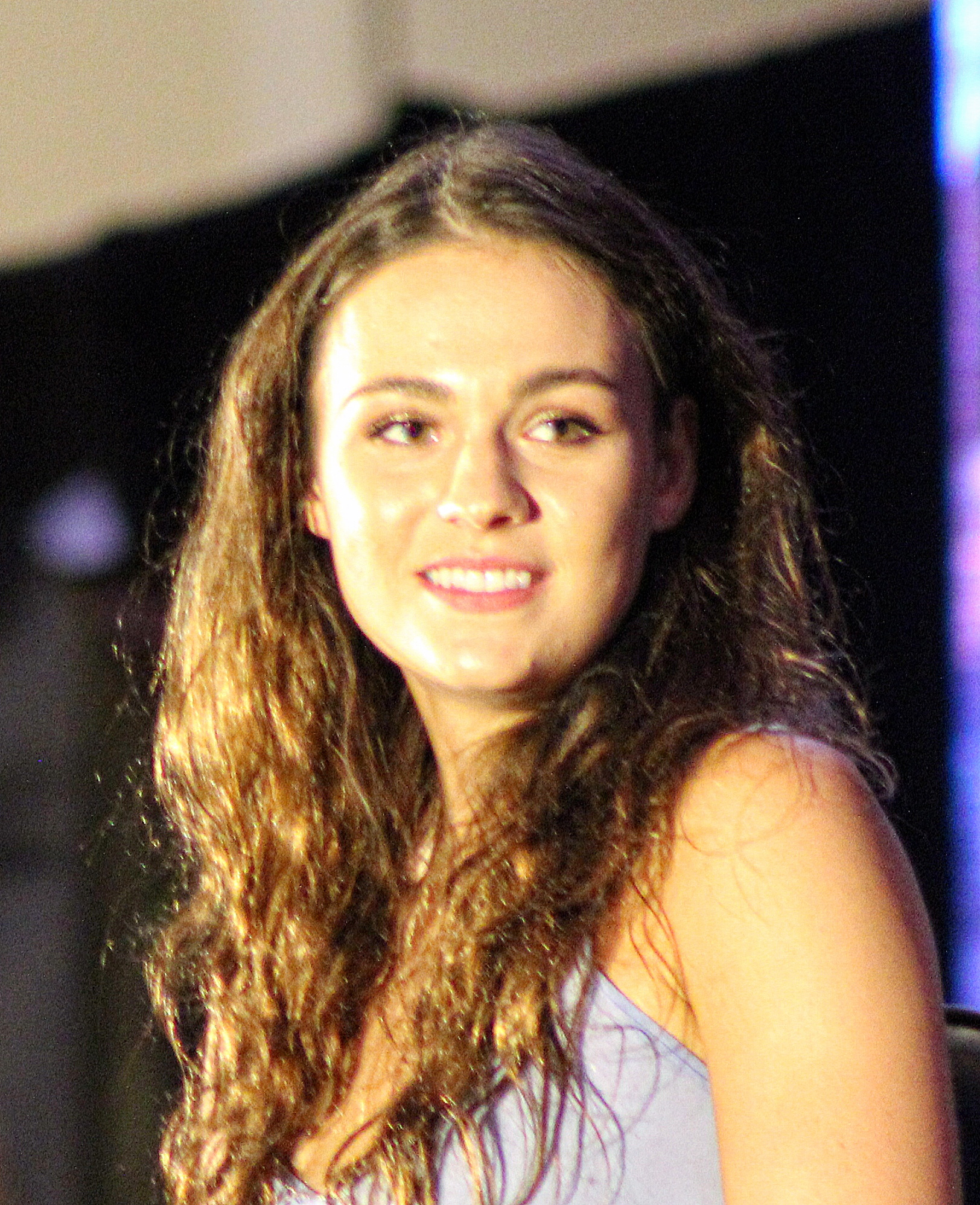 Sophie Skelton at the 2018 Creation Entertainment Outlander Convention in Las Vegas, Nevada (USA).